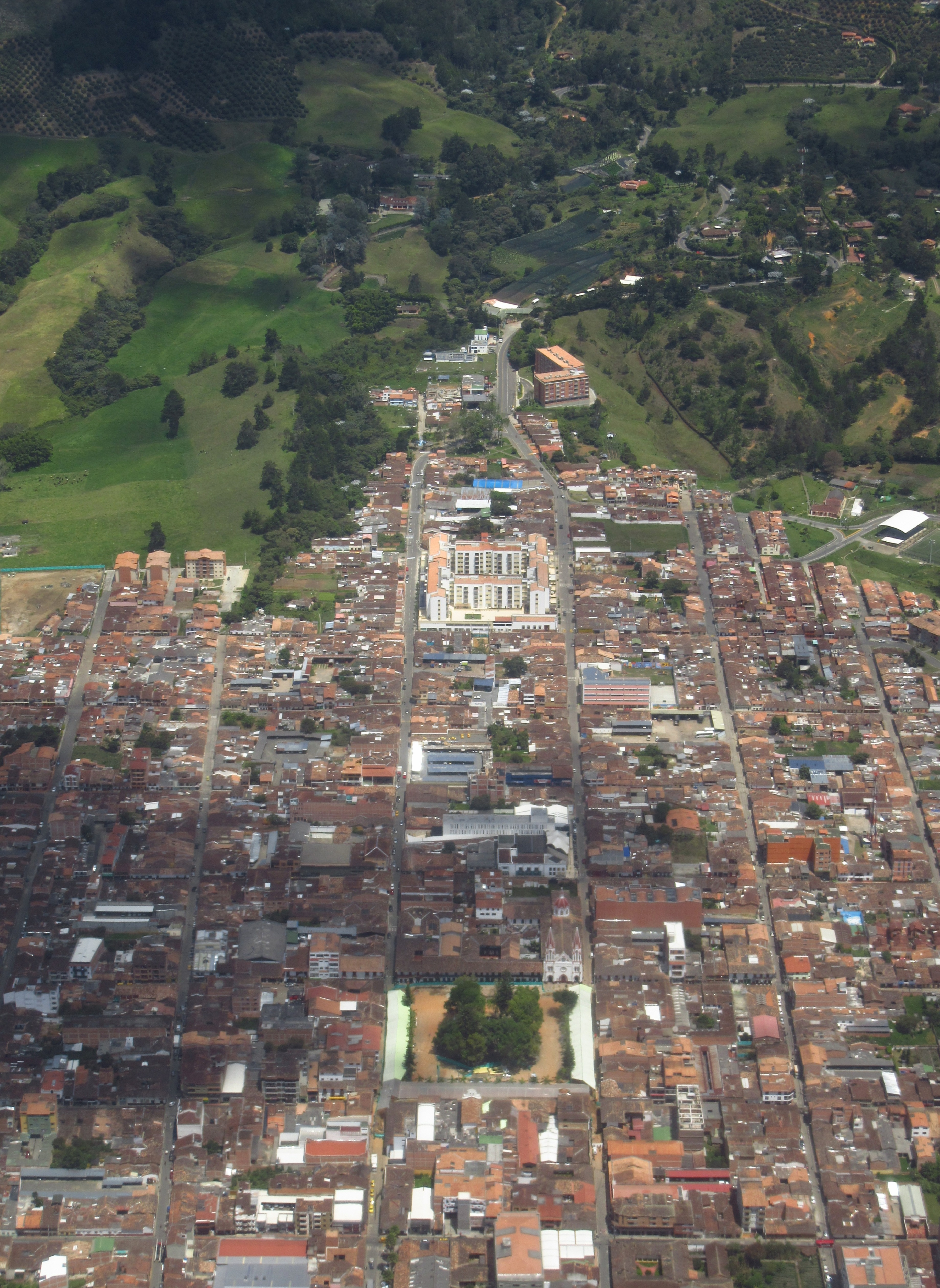 La Ceja, municipio de Antioquia